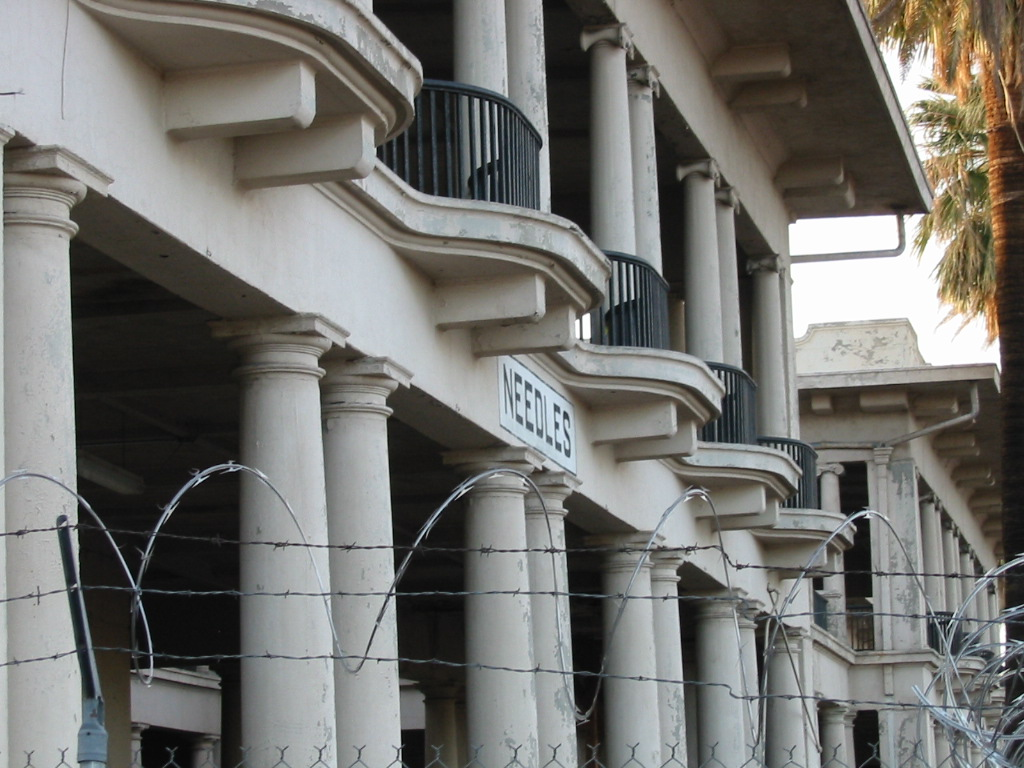 Photograph of "El Garces", the Harvey House in Needles